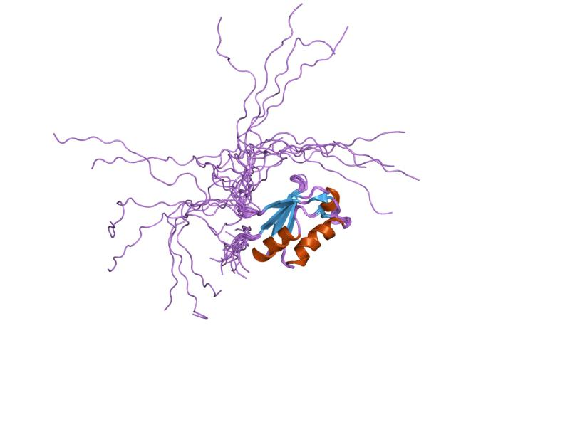 Cartoon representation of the molecular structure of protein registered with 1wey code.